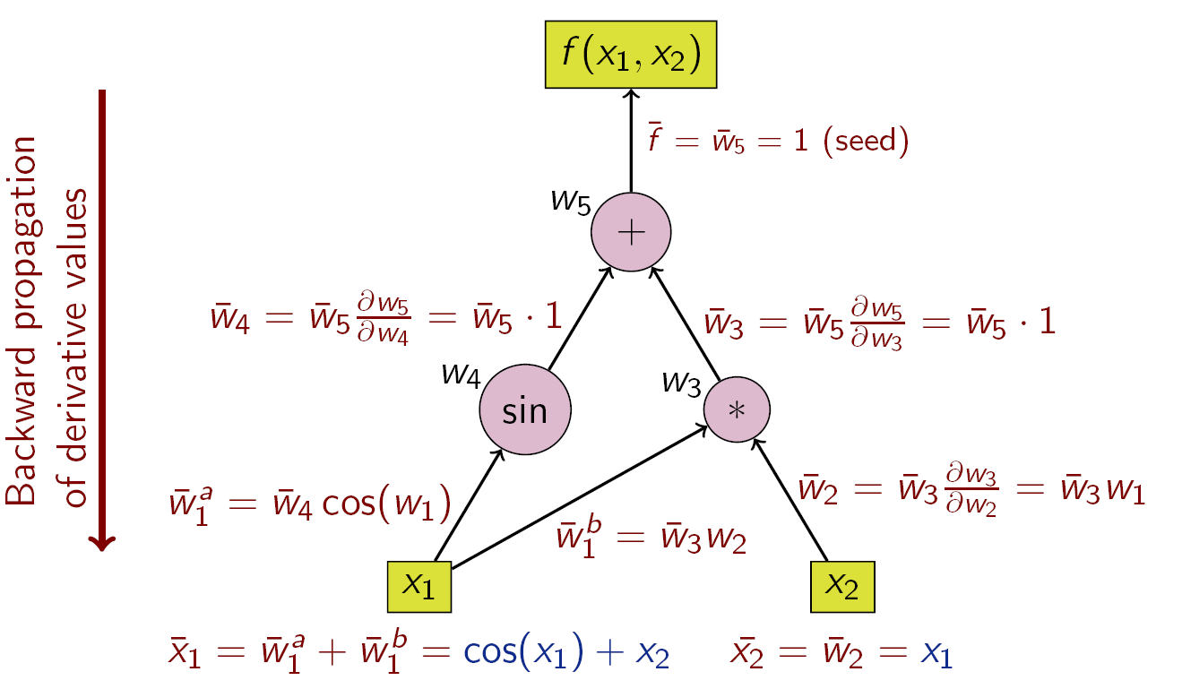 I made this myself using the graphics programming language TikZ, Beamer (LaTeX) and LaTeX It displays how derivative values propagate according to the chain rule in automatic differentiation for the function The only seed possible is which yields the complete gradient of , which comes out of the node, and which comes out of the node.